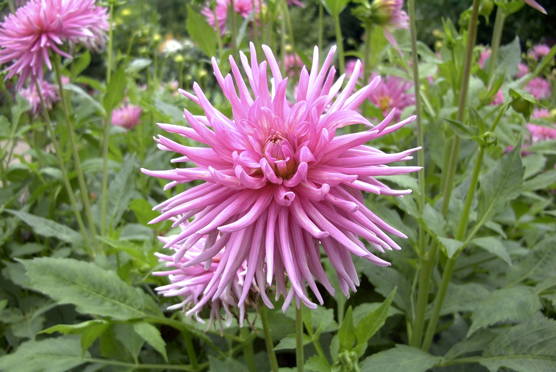 Dahlia